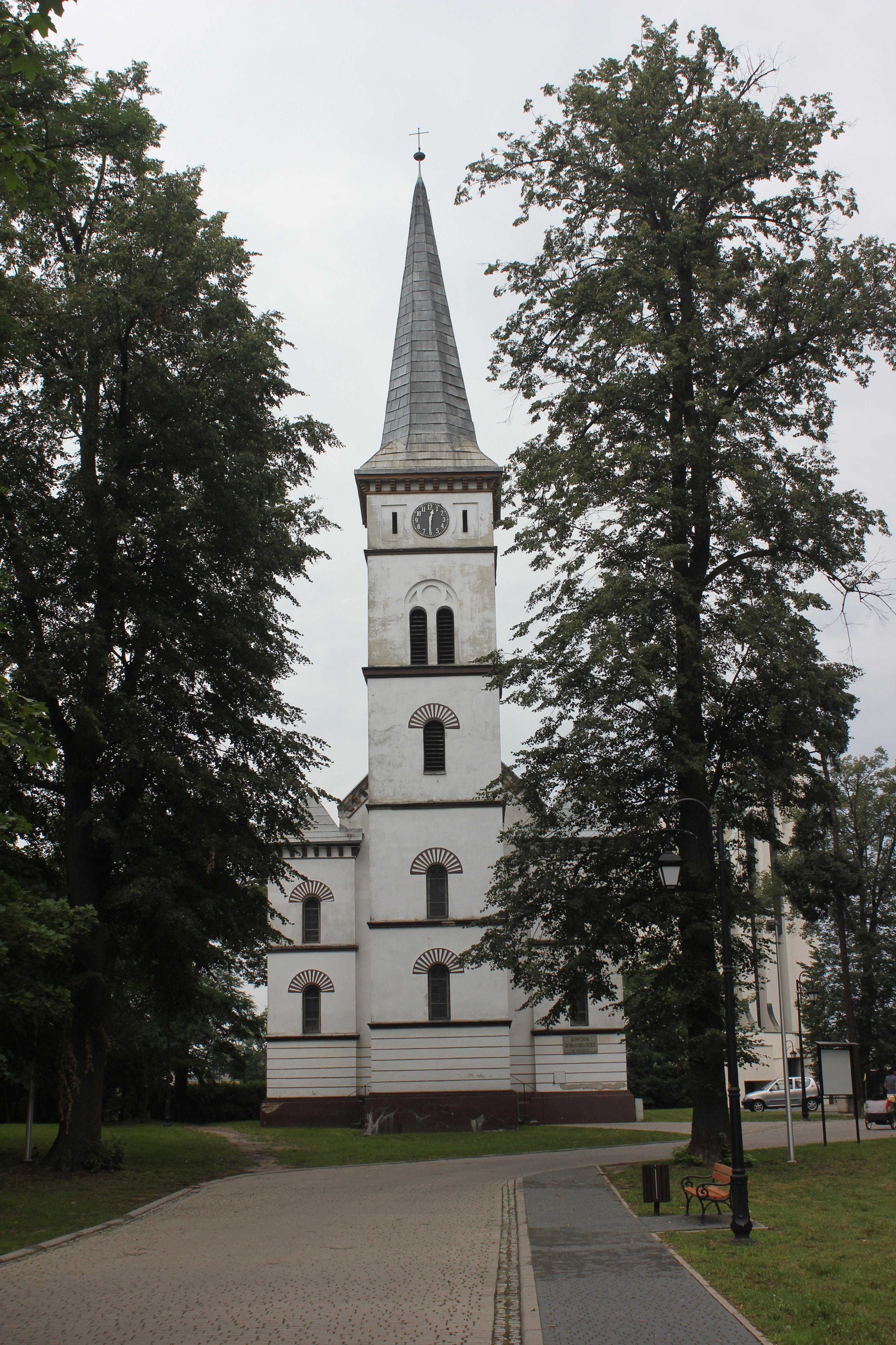 Ozimek - evangelical church